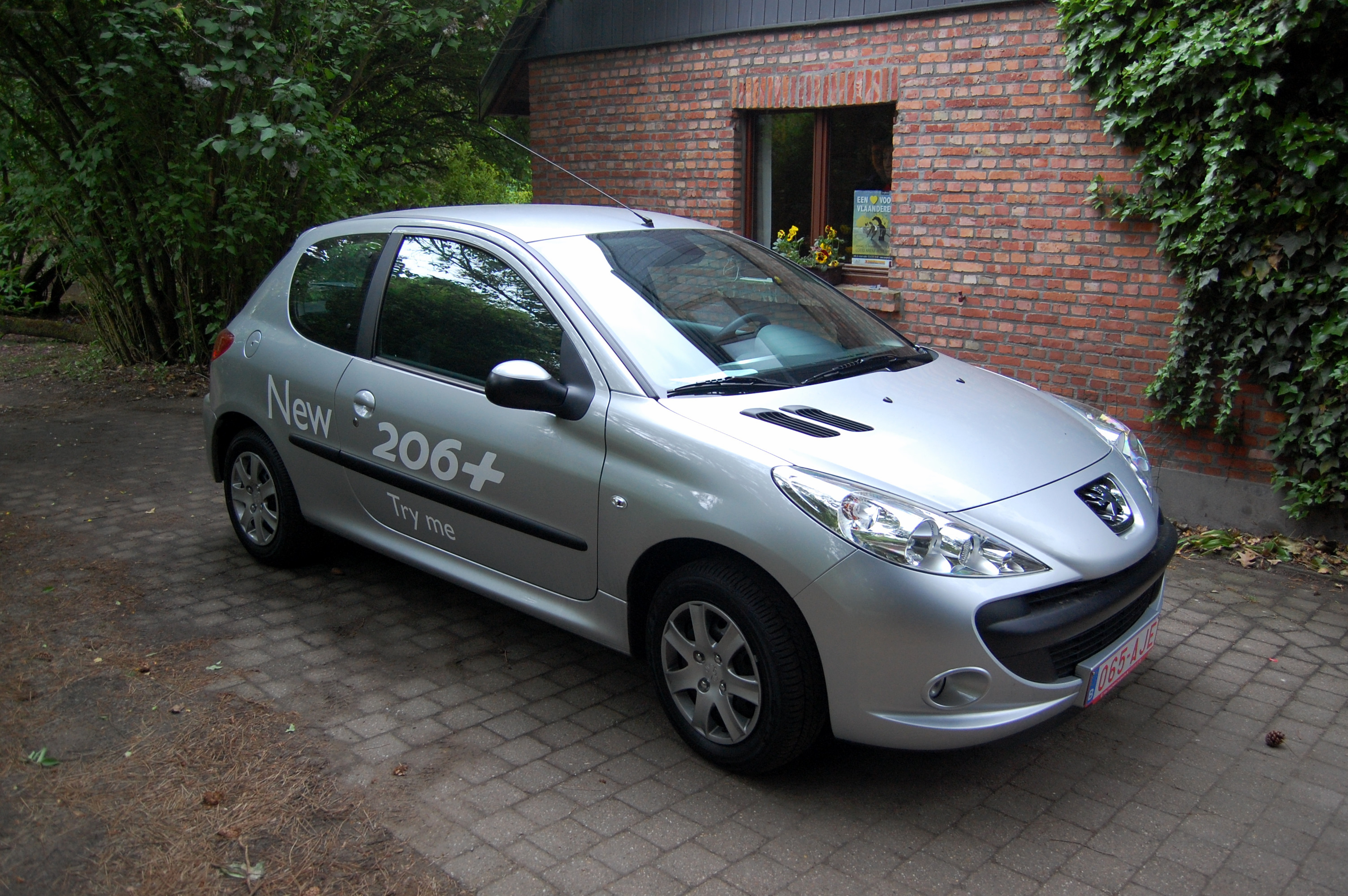 Peugeot 206+ test car.